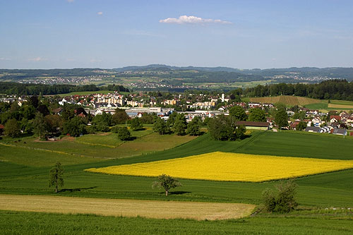 Near Muri (AG), in the background there is the Uetli mountain and the Albis range. Shot on May 18th, 2004.